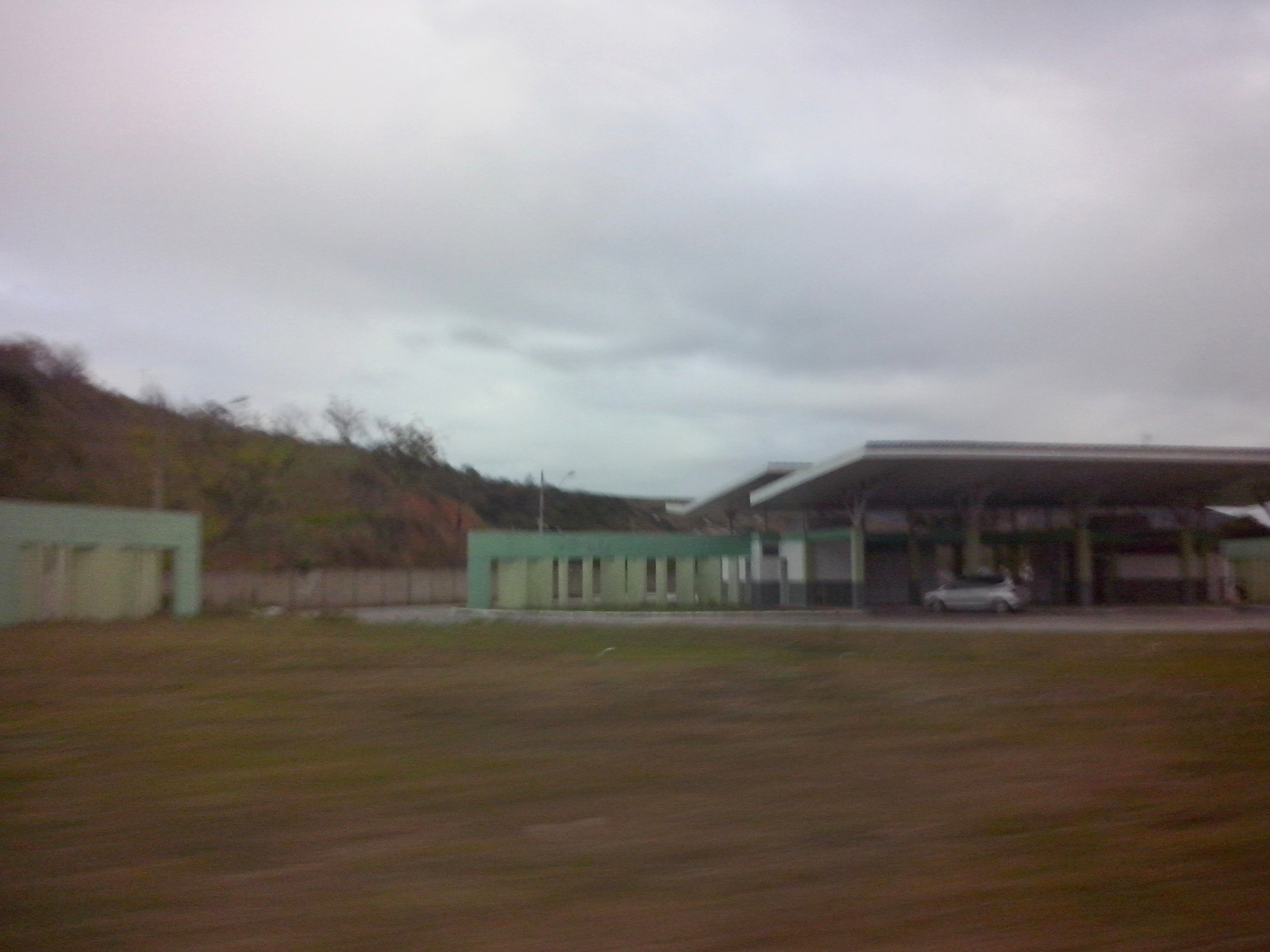 Itueta bus station, in Itueta, Minas Gerais, Brazil.